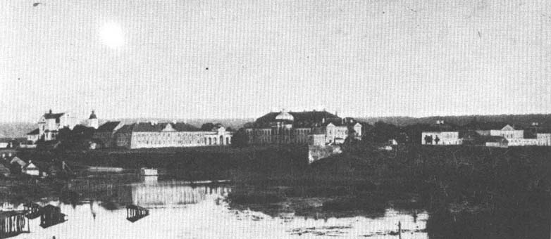 A view in New Zaslav.